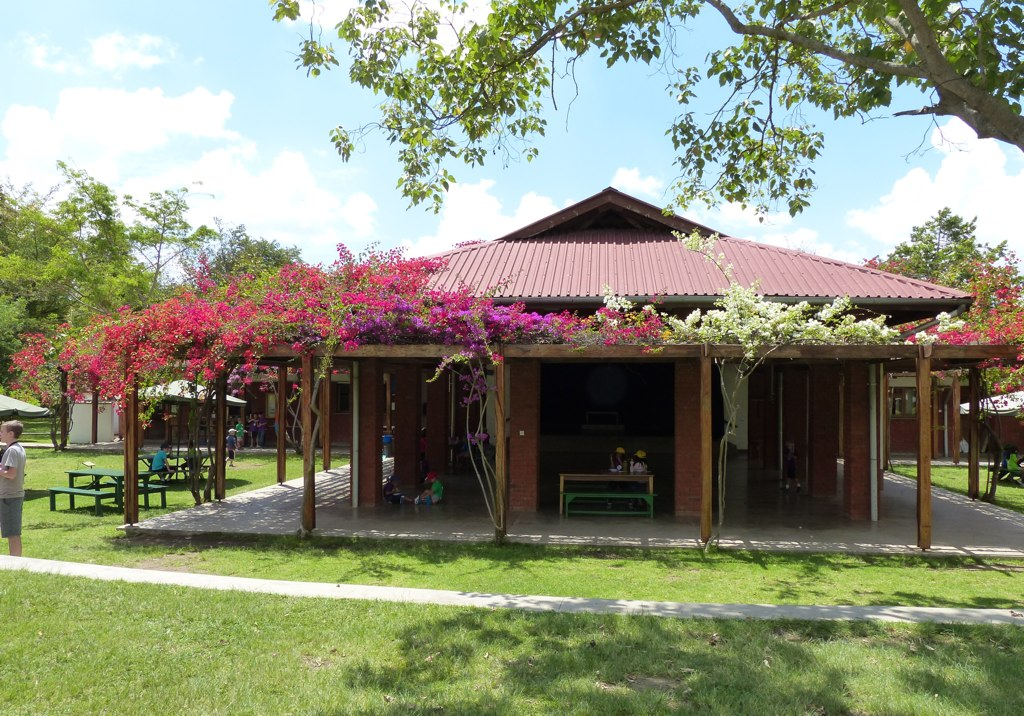 ISM Arusha